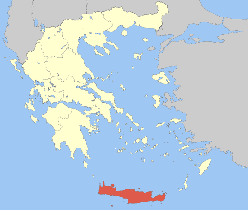 Locator Map of Crete Periphery, Greece